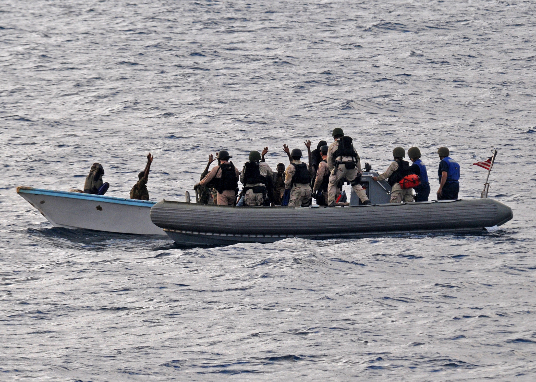 090211-N-1082Z-209 GULF OF ADEN (Feb. 11, 2009) Visit, board, search and seizure team members (VBSS) in a rigid-hulled inflatable boat (RHIB) from the guided-missile cruiser USS Vella Gulf (CG-72) close in to apprehend suspected pirates. Vella Gulf is the flagship for Combined Task Force 151, a multi-national task force conducting counterpiracy operations to detect and deter piracy in and around the Gulf of Aden, Arabian Gulf, Indian Ocean and Red Sea. It was established to create a maritime lawful order and develop security in the maritime environment. (U.S. Navy photo by Mass Communications Specialist 2nd Class Jason R. Zalasky/Released)